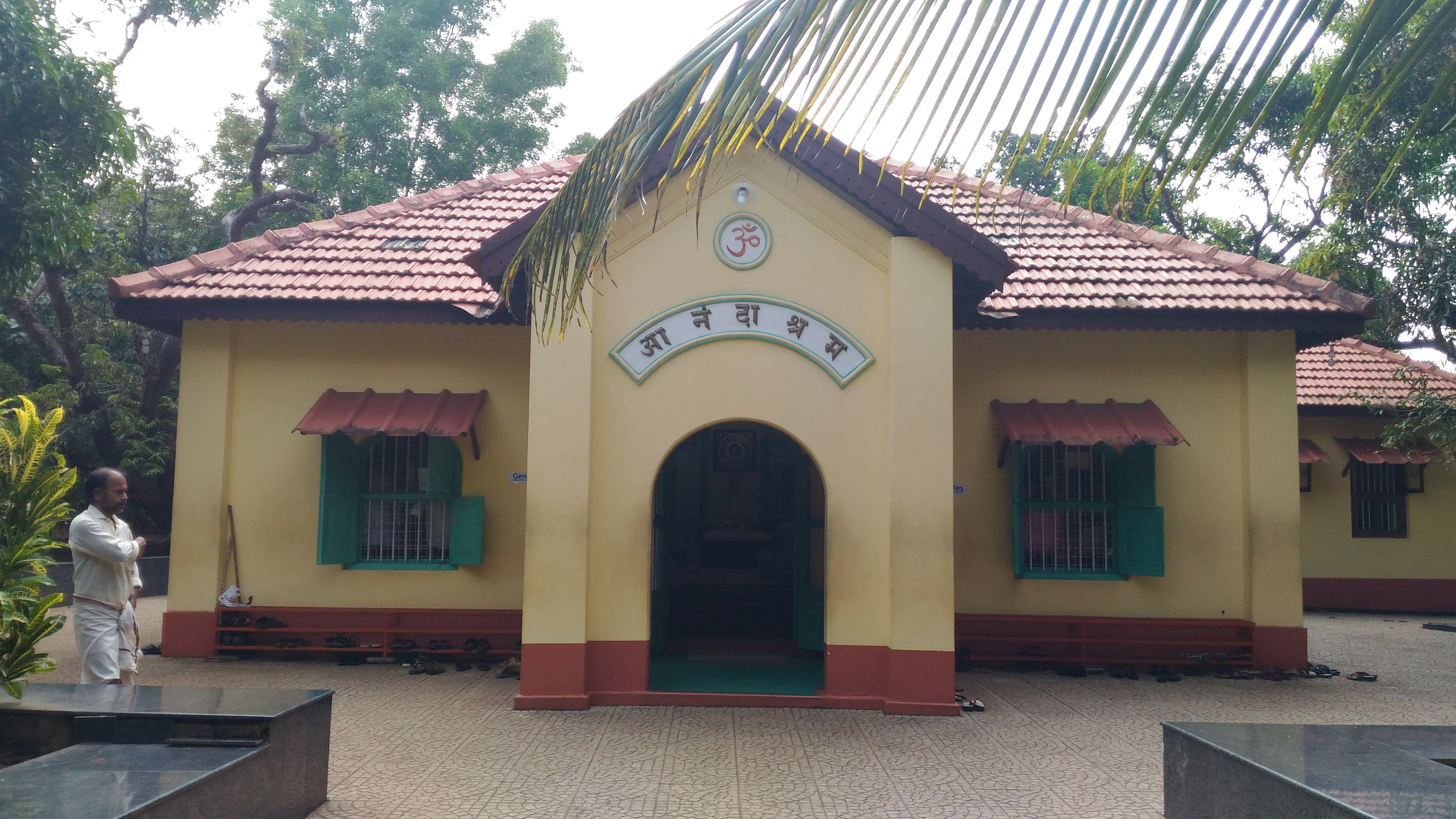 The main Hall which is considered as the Sreekovil of the Ashram